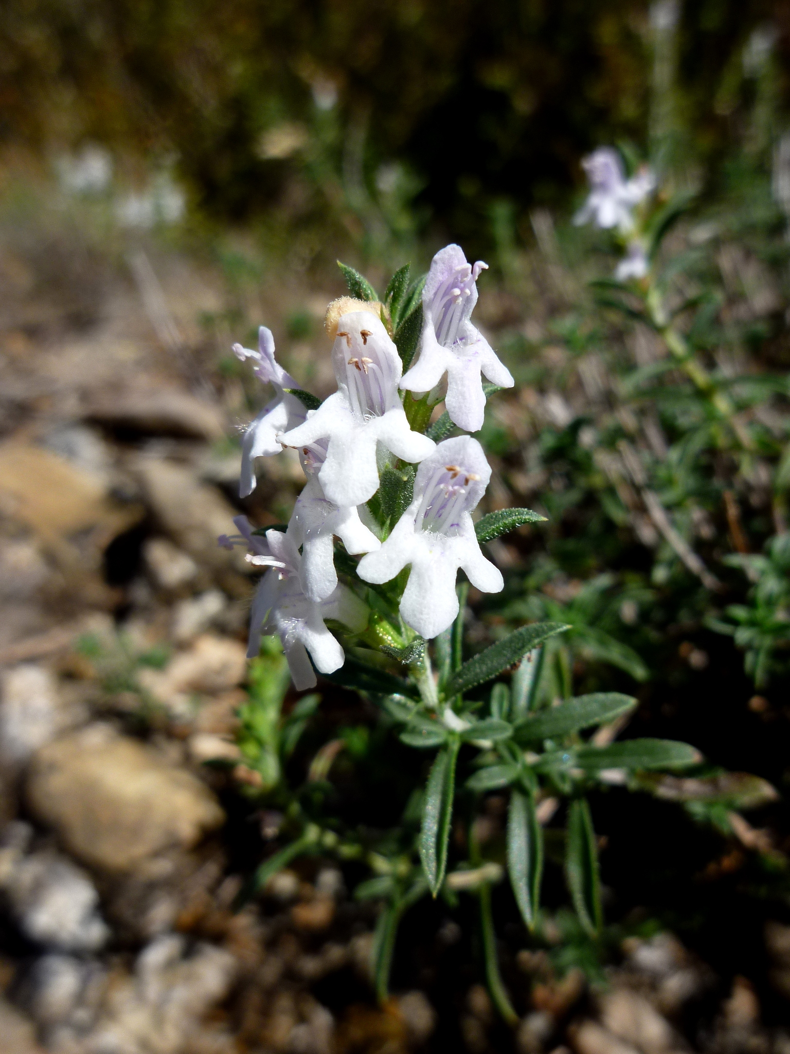 Satureja montana. In Guixers (Solsonès-Catalunya). To 1205 m. altitude